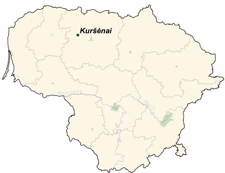 Kuršėnai on the map of Lithuania